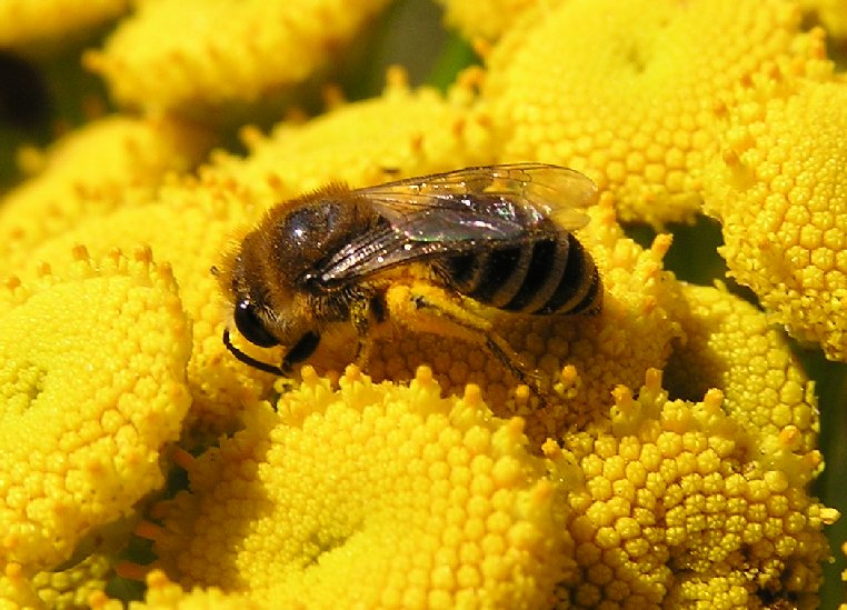 Colletes daviesanus on Tanacetum vulgare